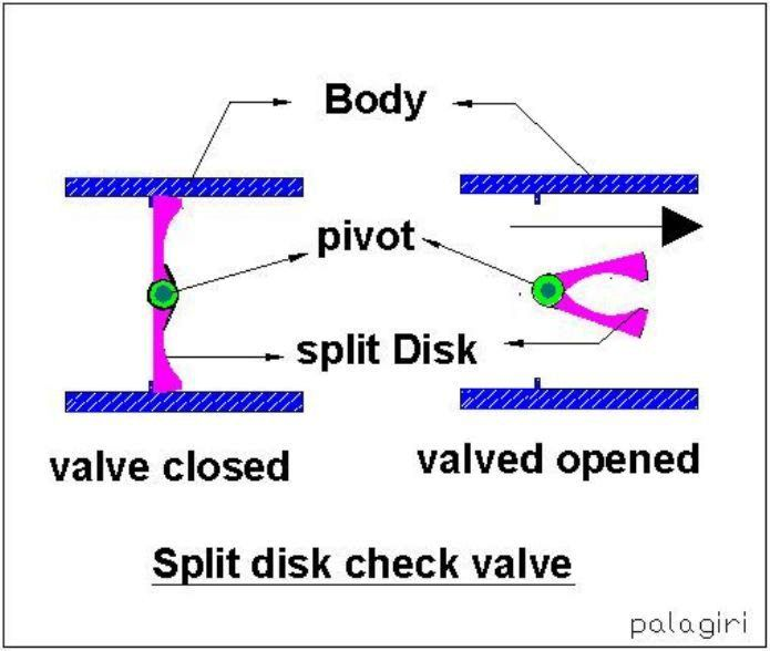 Split check valve for control flow